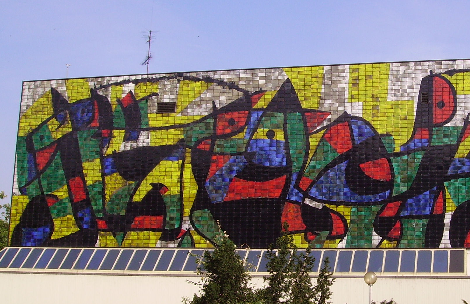 mural of Joan Miró in Ludwigshafen, Germany